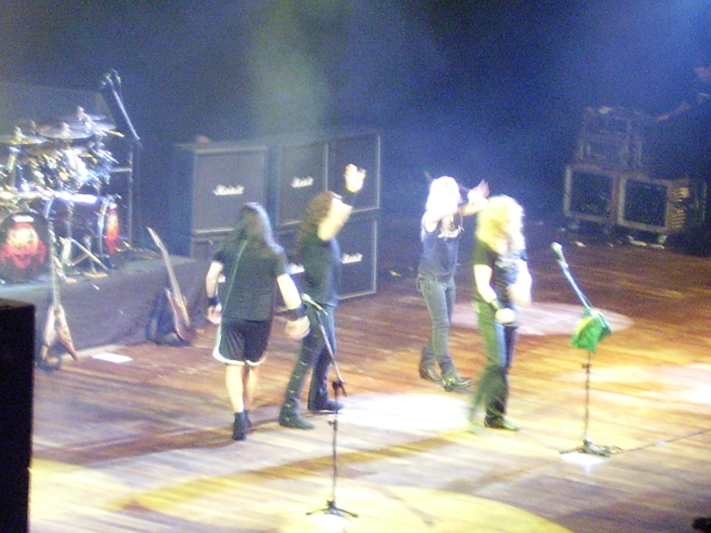 Photo Of Thrash Metal Band Megadeth Live 06/06/2008 In São Paulo.